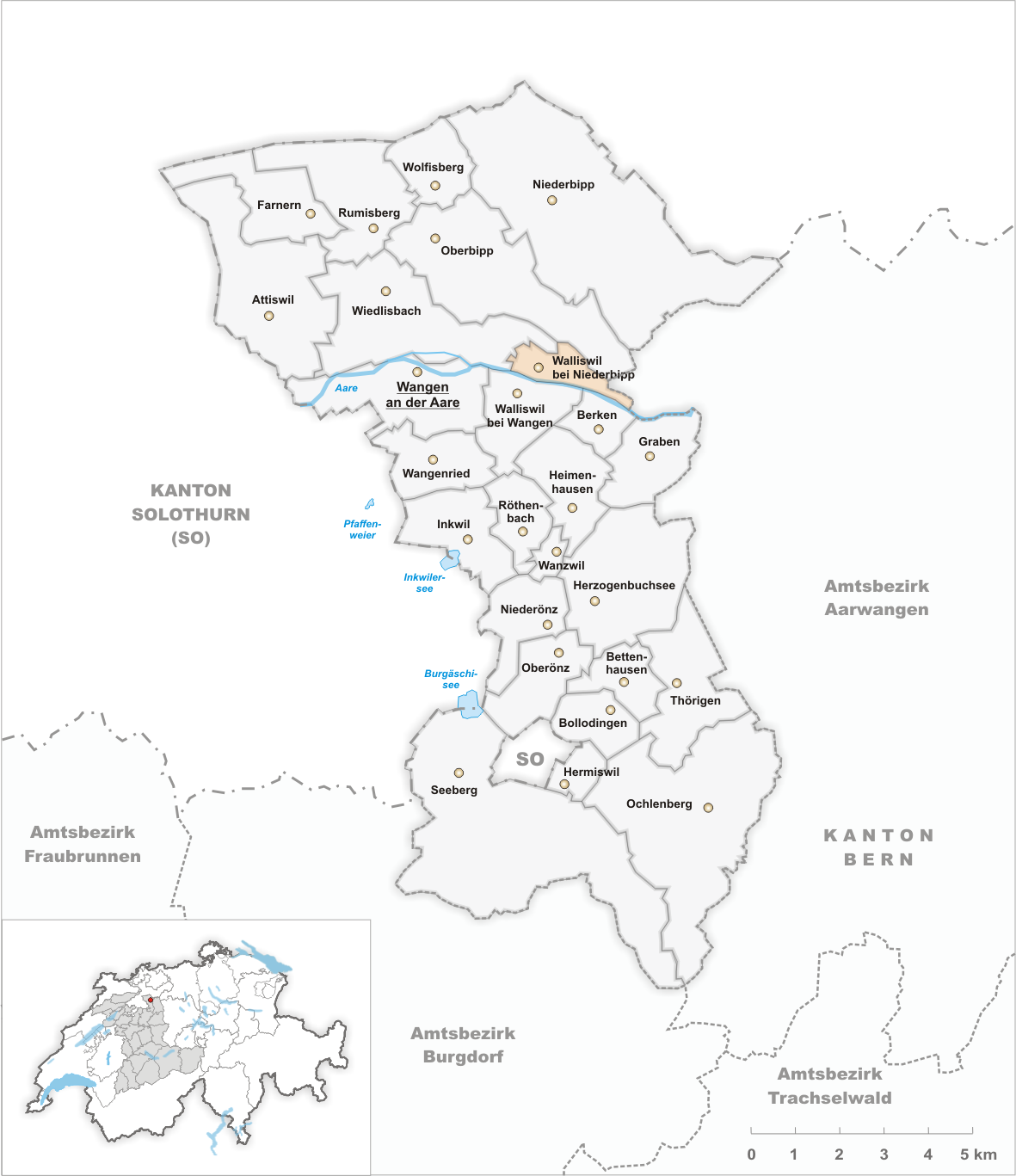 Municipality Walliswil bei Niederbipp